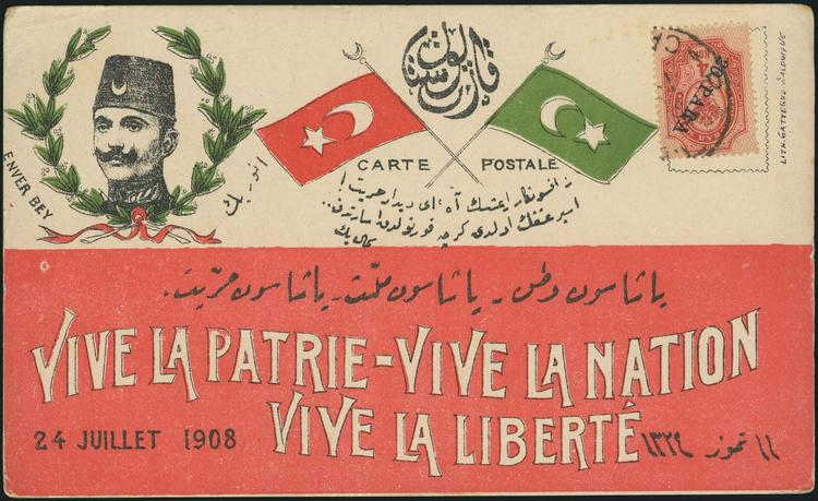 Postcard commemorating the Young Turk Revolution of 24 July 1908, with the slogan "Long live the fatherland, long live the nation, long live liberty" in Ottoman Turkish and French, and a picture of Enver Pasha. In modern Turkish: "Yaşasın Vatan - Yaşasın Millet - Yaşasın Hürriyet!"